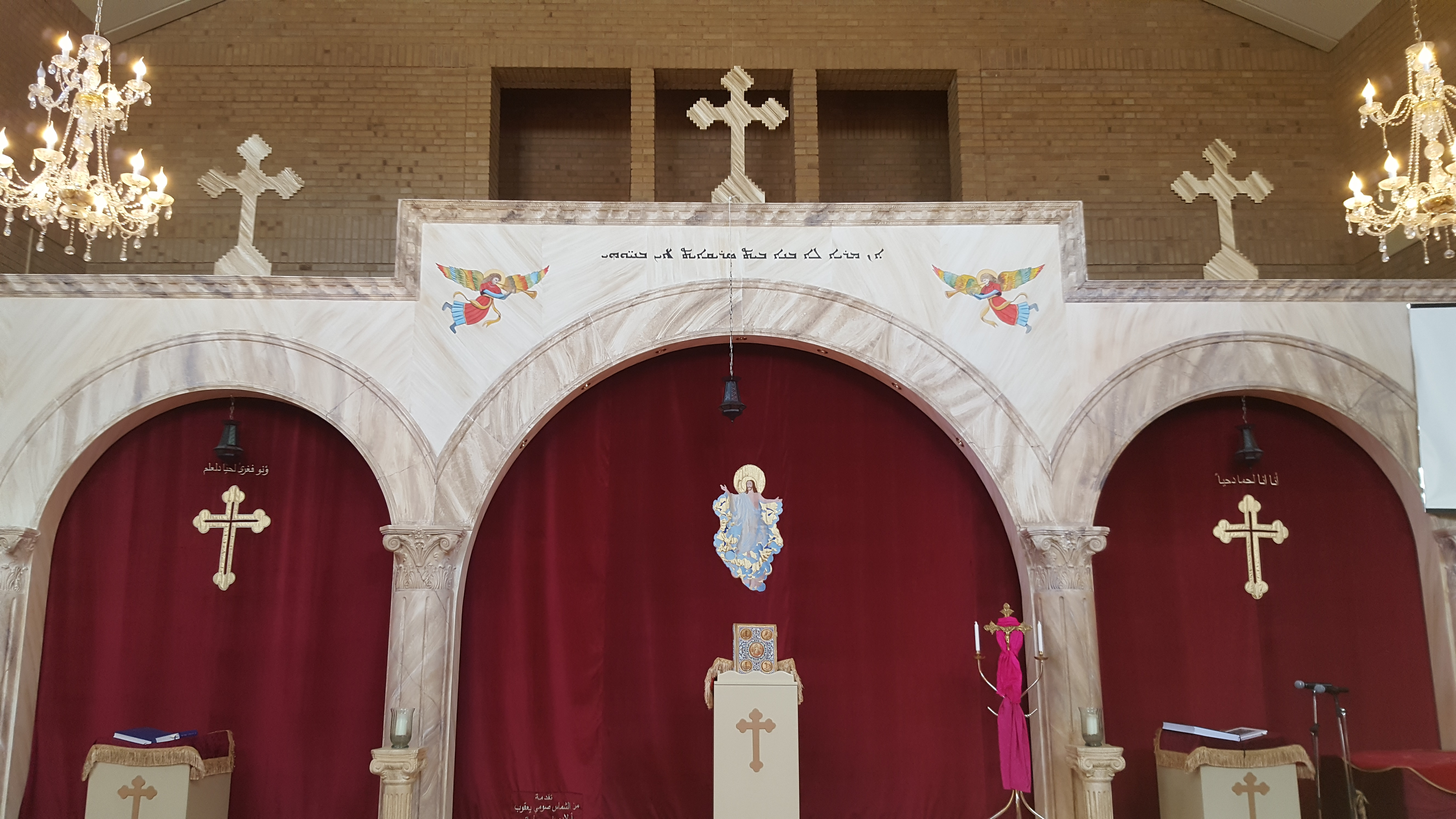 Predikstol Sankt Eliyo